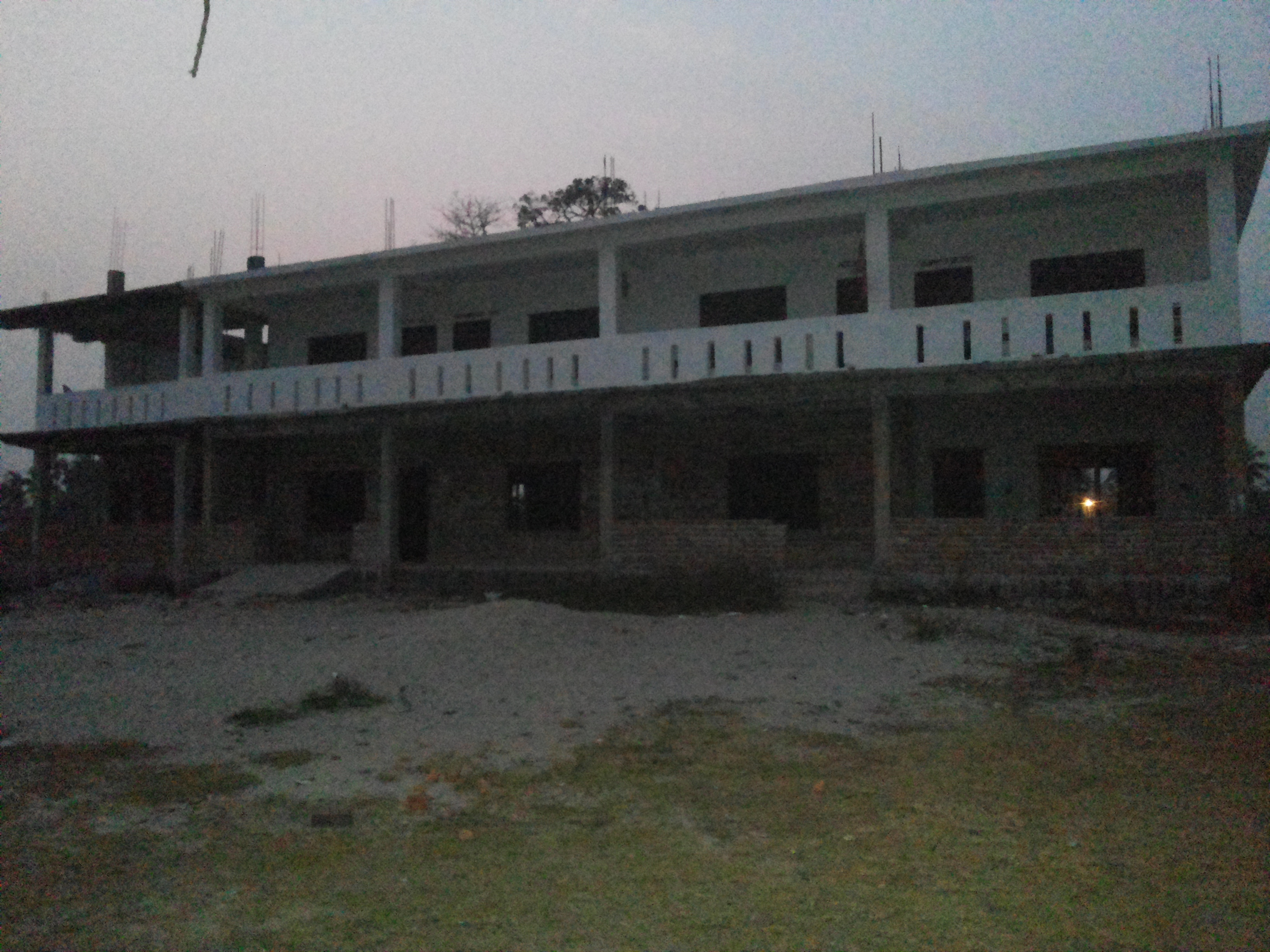 नेपाली: shree laxminarayan secondary school